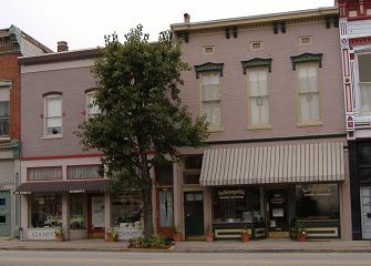 Outside of Schimpff's Confectionery in Jeffersonville.